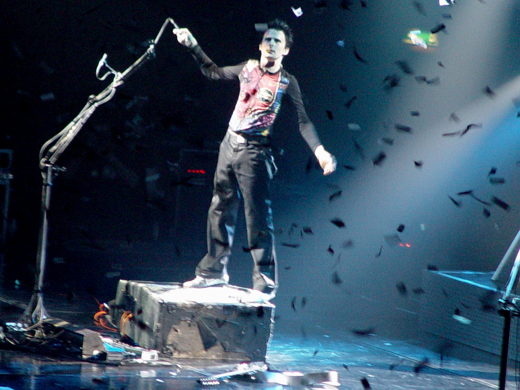 Matt Bellamy performing with Muse at Motorpoint Arena Cardiff.